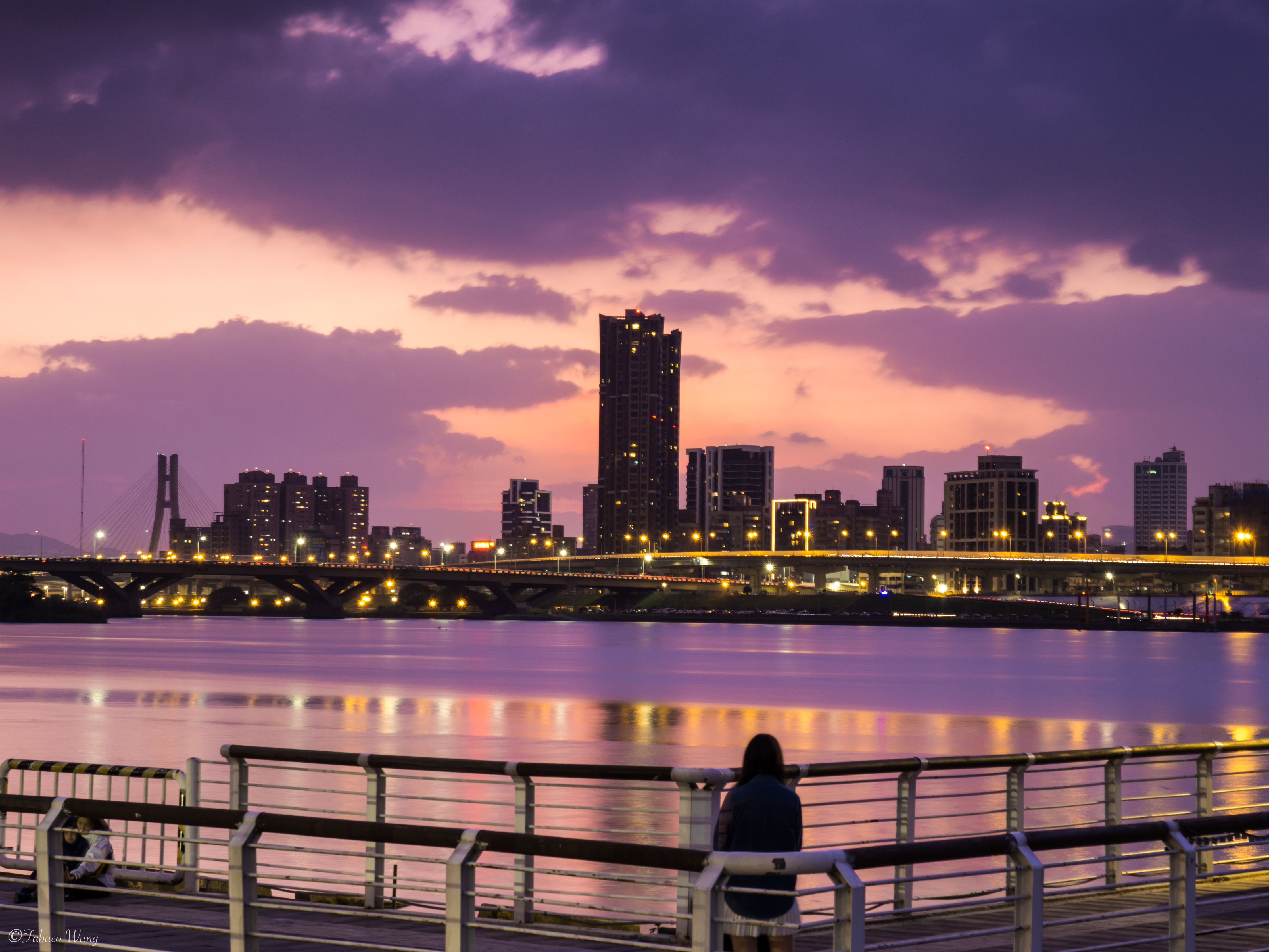 Purple clouds over the skyline of Dadaocheng Wharf, Taipei City.